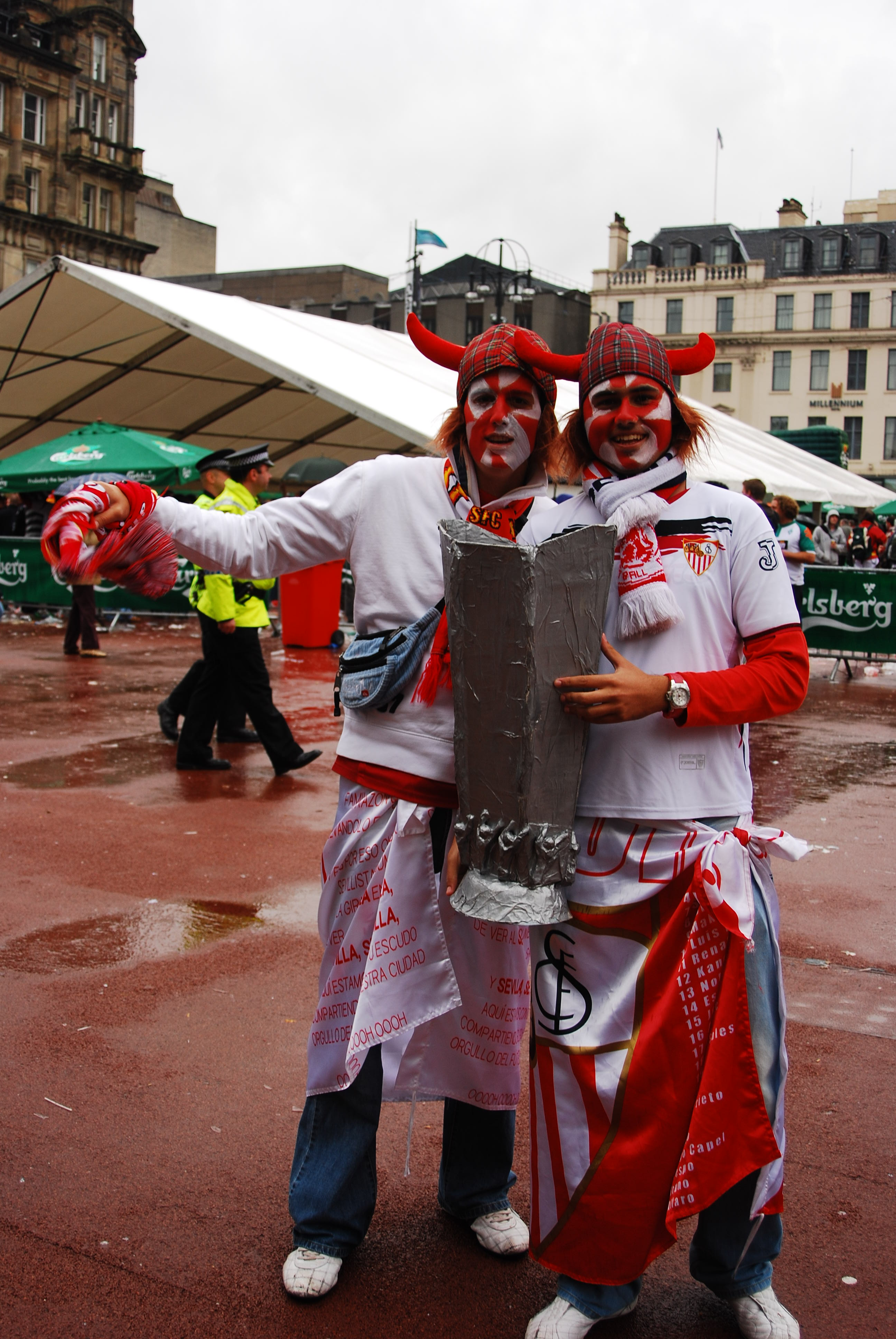 Fans on the streets in Glasgow, UEFA Cup Final 2007